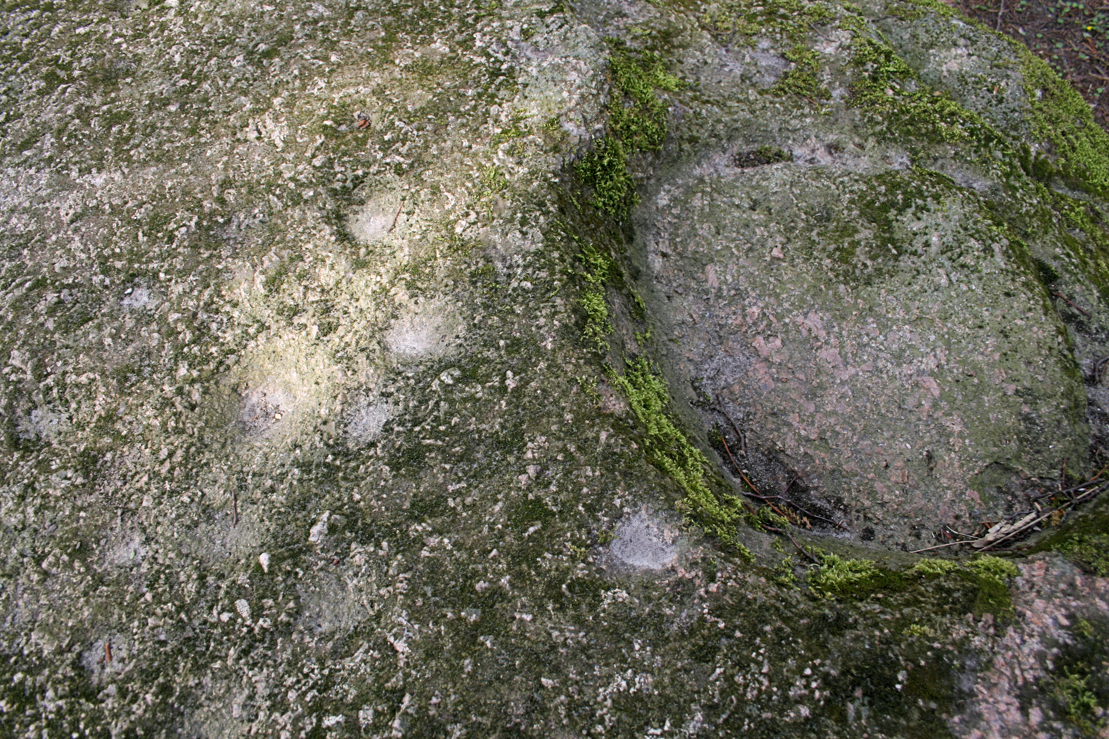 the offering stone near Quoltitz on the island Rügen - cup marks and traces of a distant hand mill stone